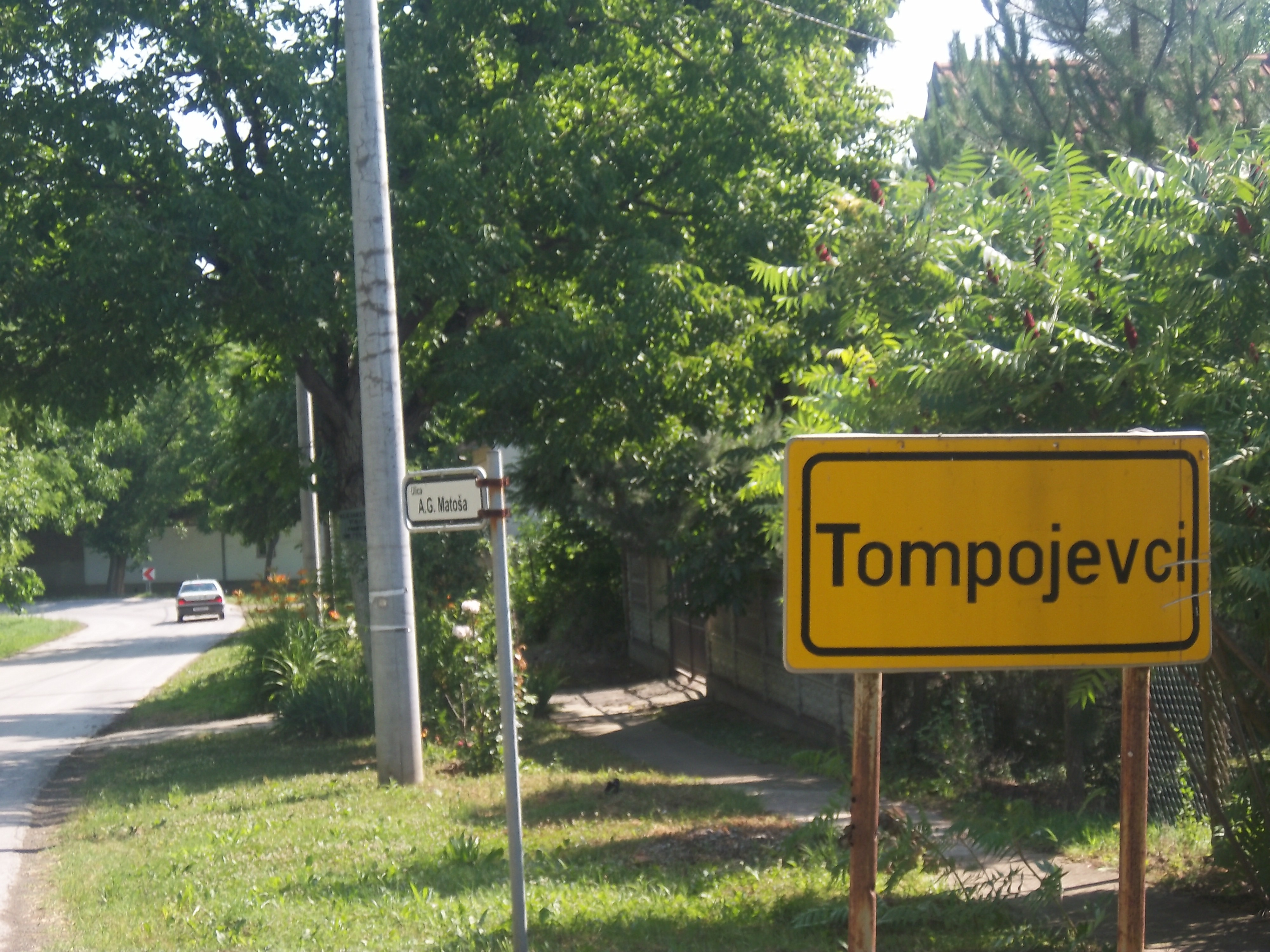 Village and municipality Tompojevci in Eastern Croatia